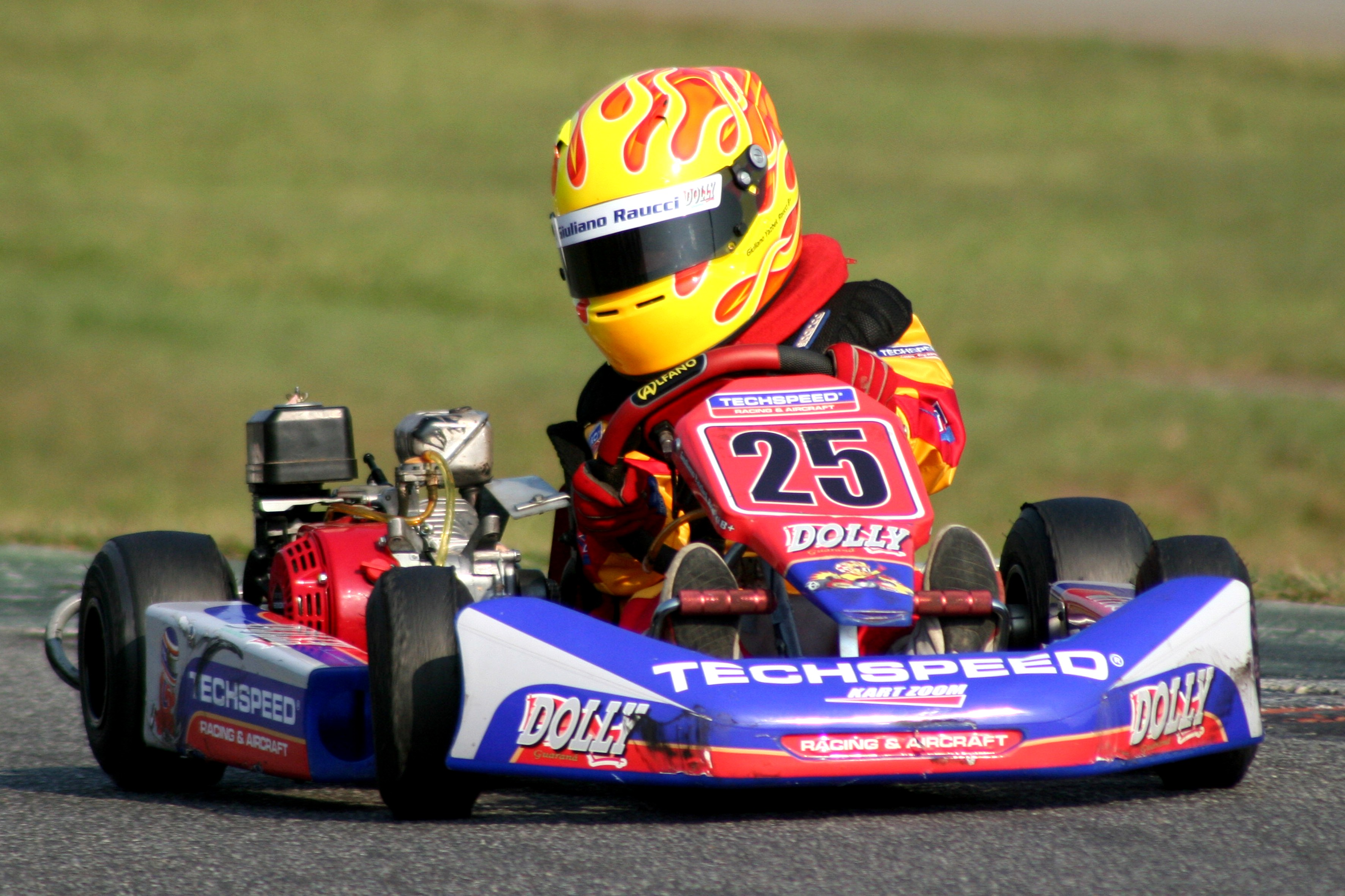 Mirim is the first class in brazilian karting